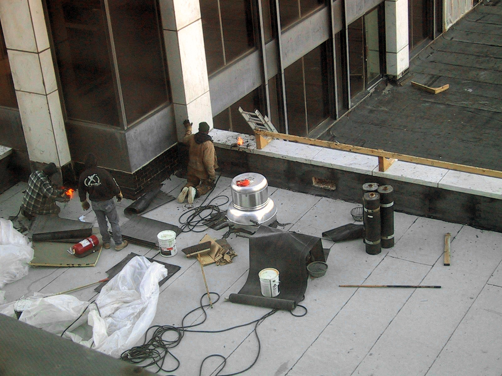 Image title: Roofing contractors Image from Public domain images website